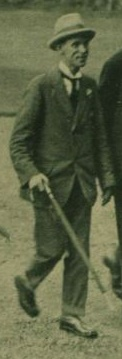 Thompson Donald, MP for Belfast Victoria at Westminster and also for Belfast East in the Parliament of Northern Ireland